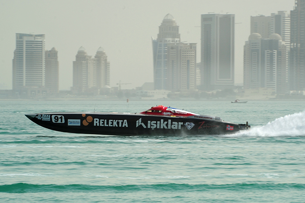 Qatar Cass 1 Powerboat Races. Doha, March 2012. Zabo Racing's Relekta boat.